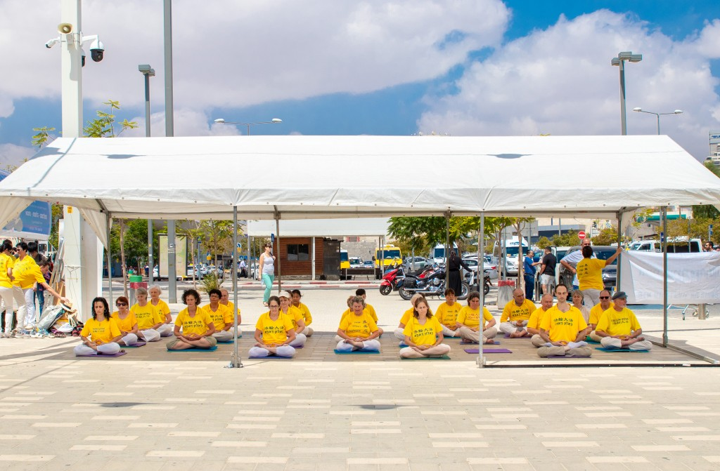 Falun Dafa practitioners sit in meditation in Beer Sheva, Israel